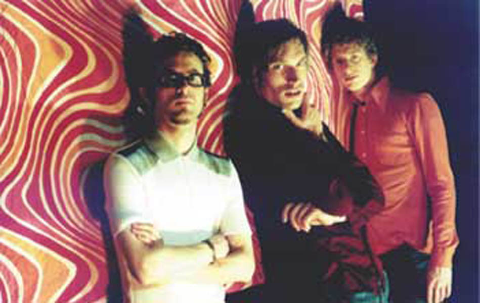 The german experimental electrogroup Reaktor